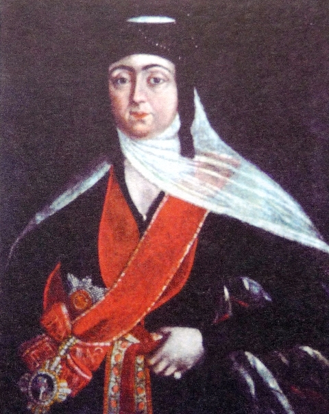 Queen Mariam, wife of George XII of Georgia